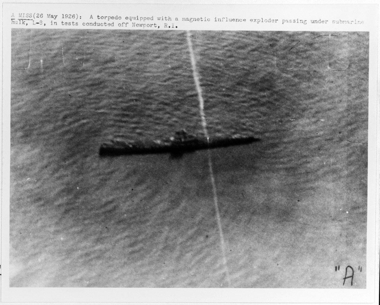 Test of 1926 Mark 6 exploder prototype